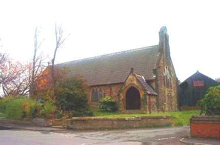 Caldergrove, St John's Church.